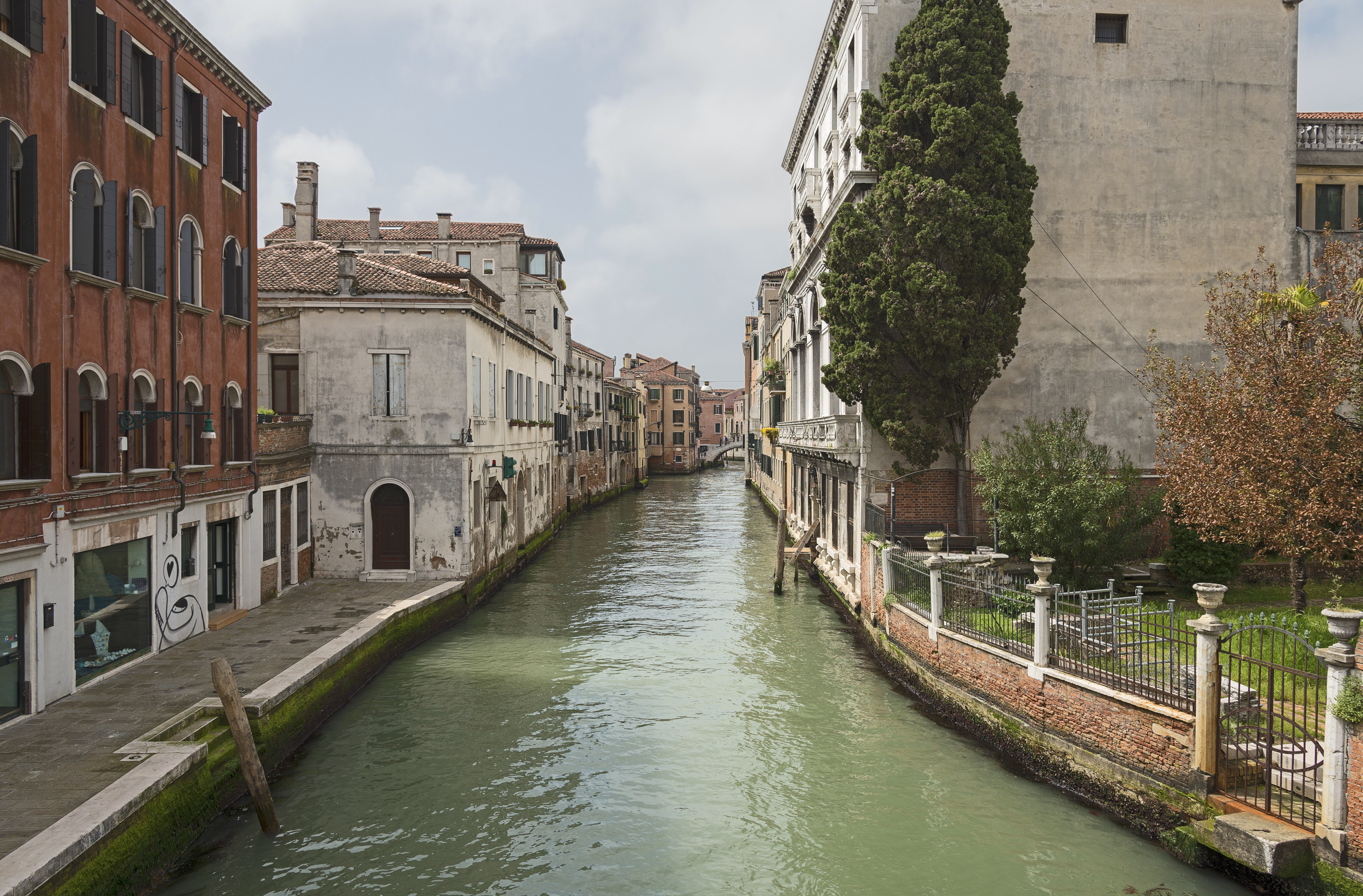 Rio di Ca Foscari Venice View from the Bridge Foscari, to the Bridge Santa Margherita.